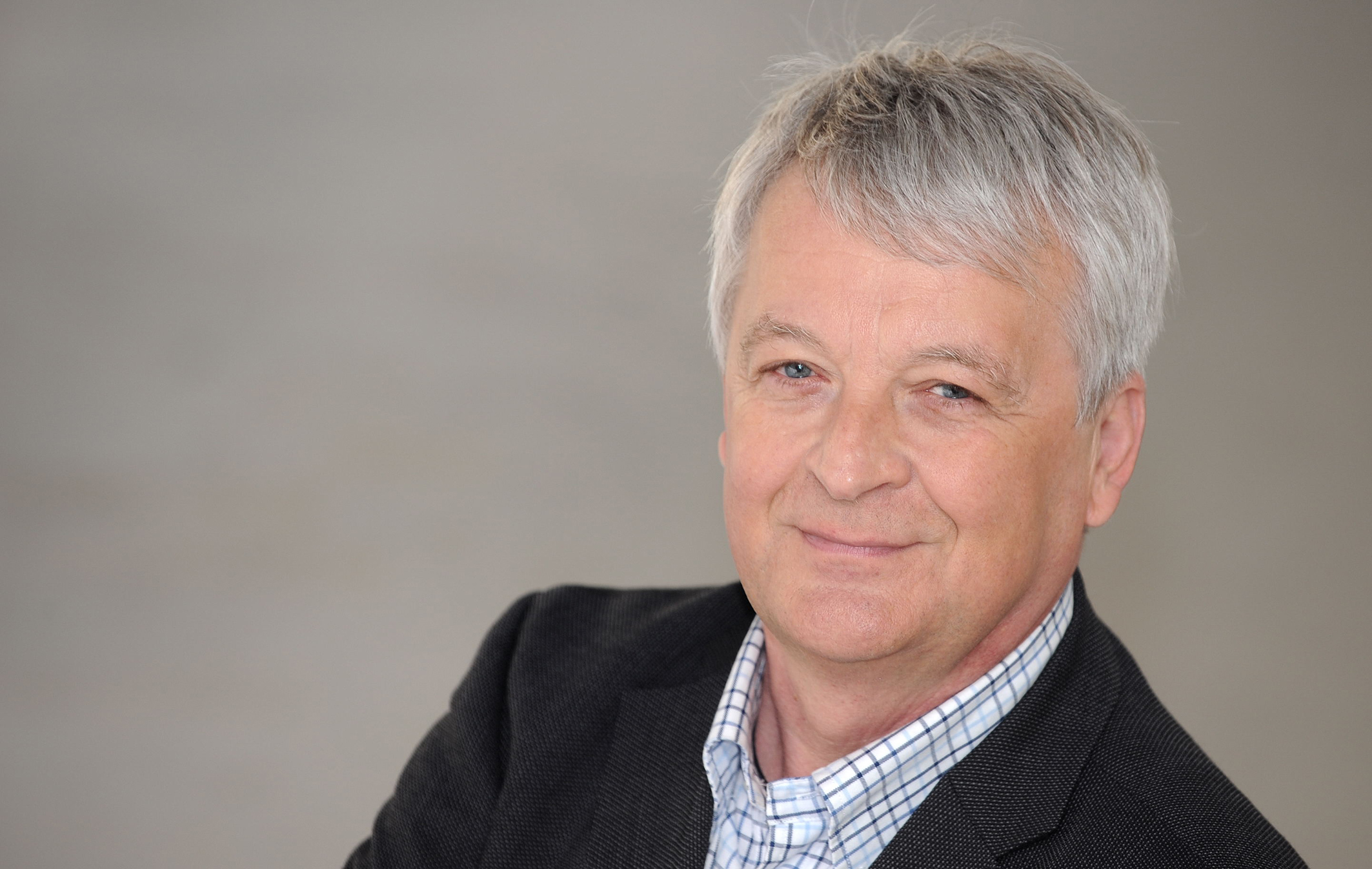 Author Jens Dittmar